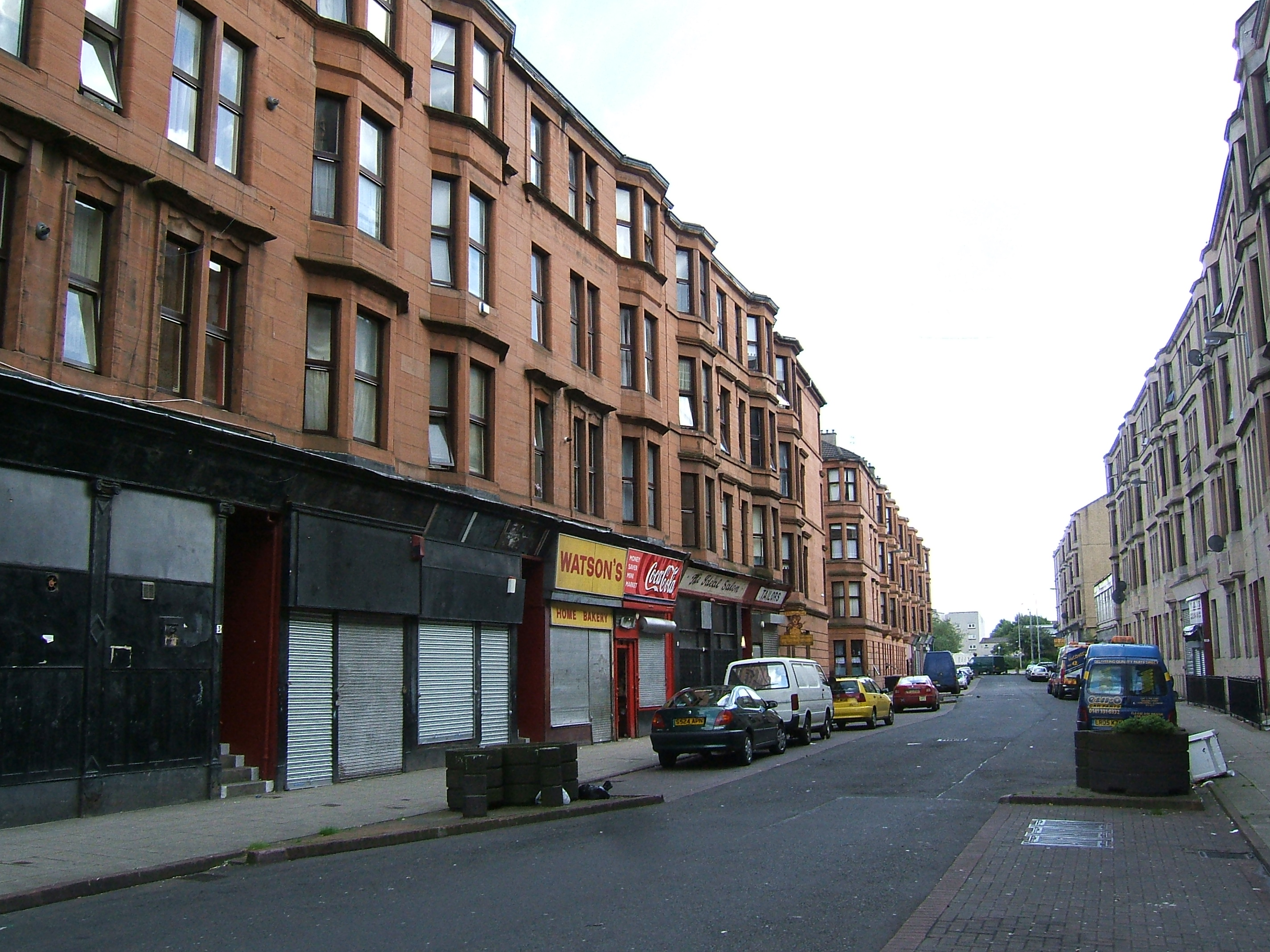 Govan, an area of Glasgow, Scotland.